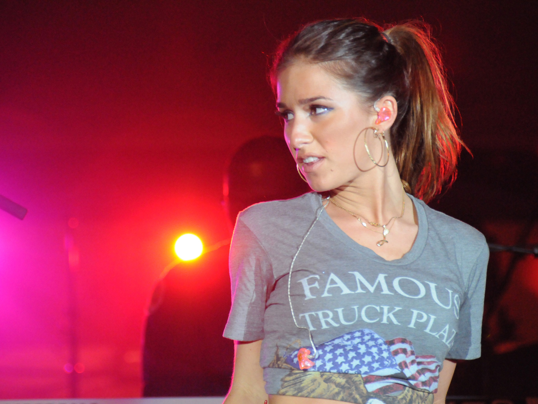 Jessie James performs for a live audience of deployed service members in Southwest Asia, Dec. 6. Tour for Troops 2009 will visit various deployed locations throughout Southwest Asia and Europe and is sponsored by the U.S. Air Force Reserve Command.